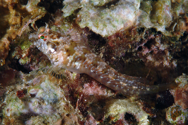 Parablennius incognitus photographed near uscany coast. Photo by Stefano Guerrieri.